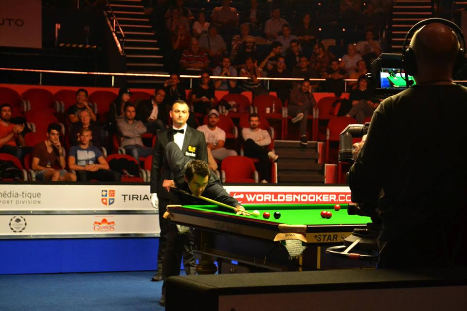 Ronnie O'Sullivan playing a shot against Judd Trump in the final of the 2016 European Masters in Bucharest, Romania